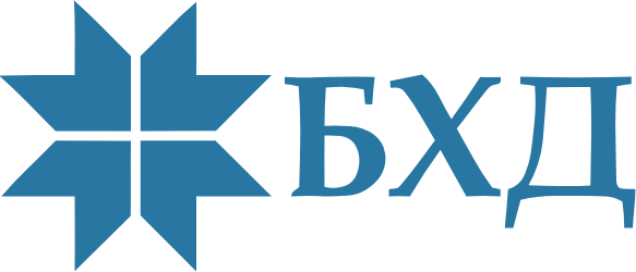 Logo of Belarusian Christian Democracy, a political party